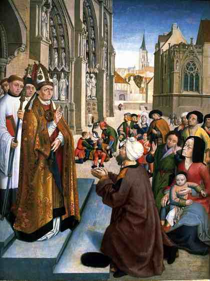 With cathedral Notre-Dame de Paris, Saint-Jean-le-rond on the left and the hospital Hotel-Dieu in the background.